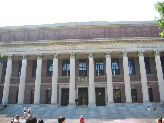 The Widener Library, Harvard University. Photo taken by Dudesleeper on August 15, 2003.